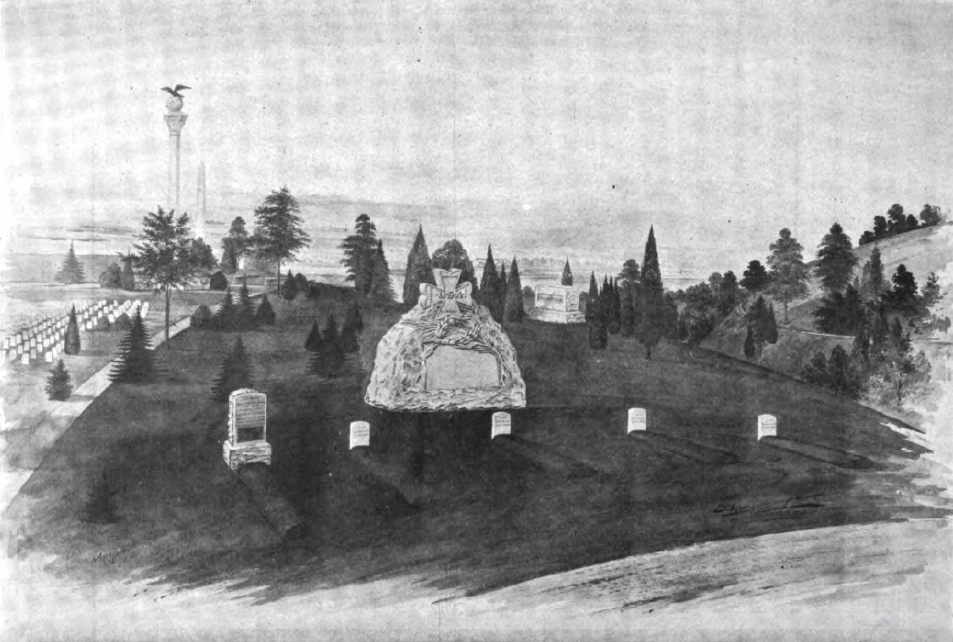 The winning design for the Spanish-American War Nurses Memorial at Arlington National Cemetery in Arlington County, Virginia, in the United States. The design was executed by Barclay Brothers of Barre, Vermont, and the memorial dedicated on May 2, 1905.